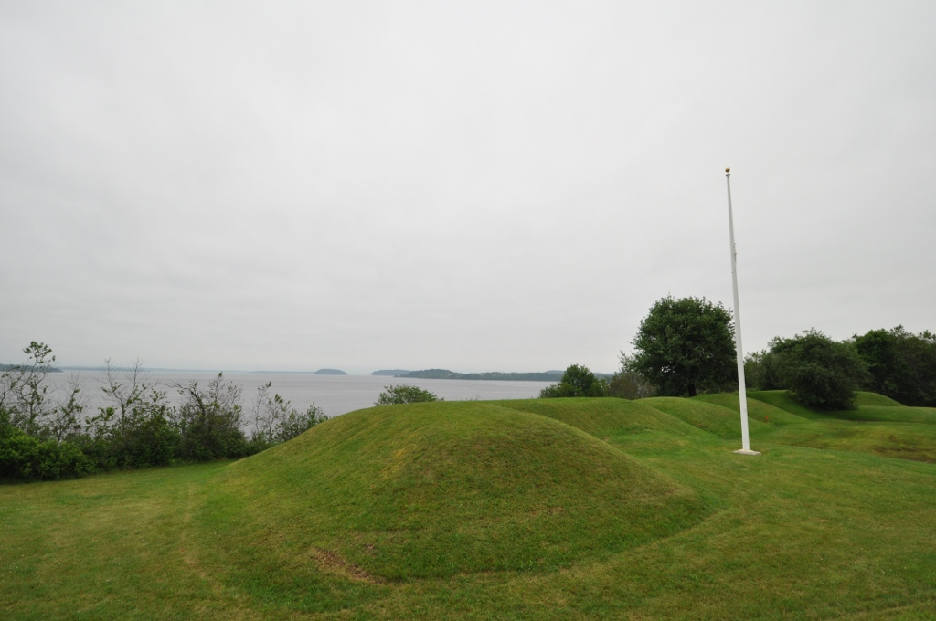 Fort O'Brien, Machiasport, Maine. View of the Civil War battery.